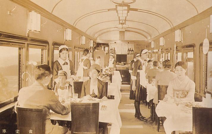 JGR Dining car